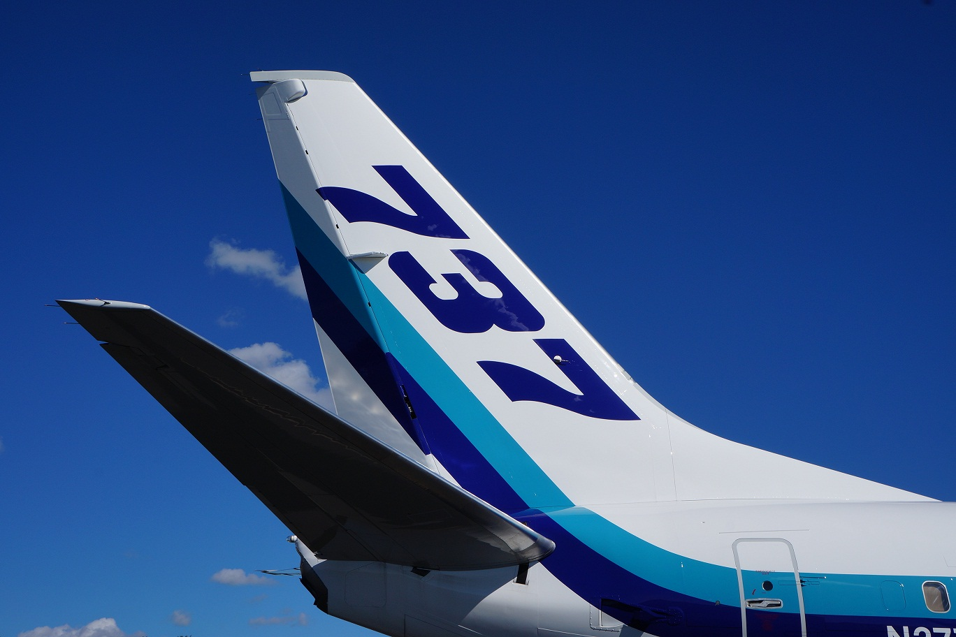 Tailplane of Eastern Air Lines Boeing 737-800 at Madison